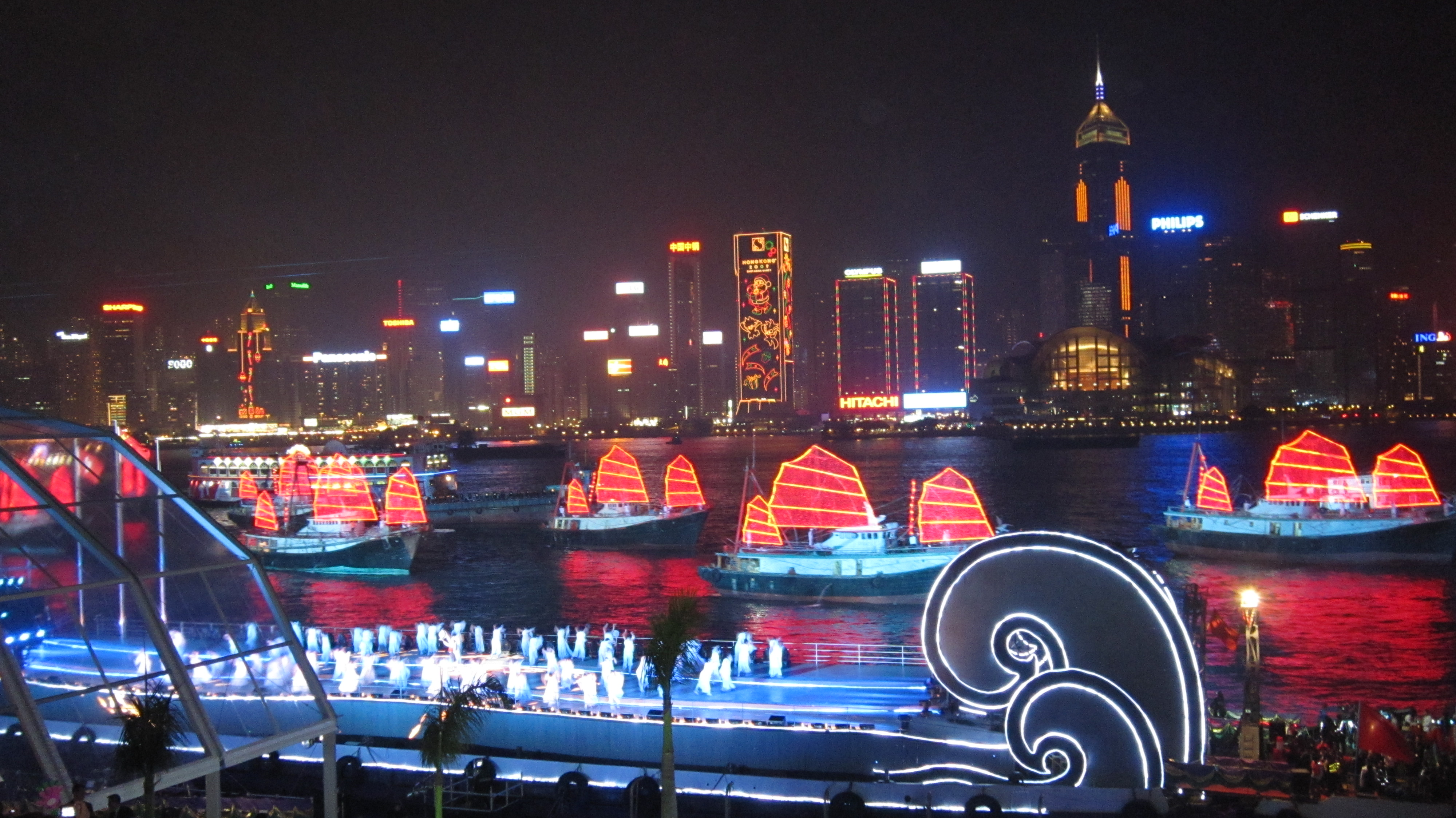 2009 East Asian Games Opening Ceremony